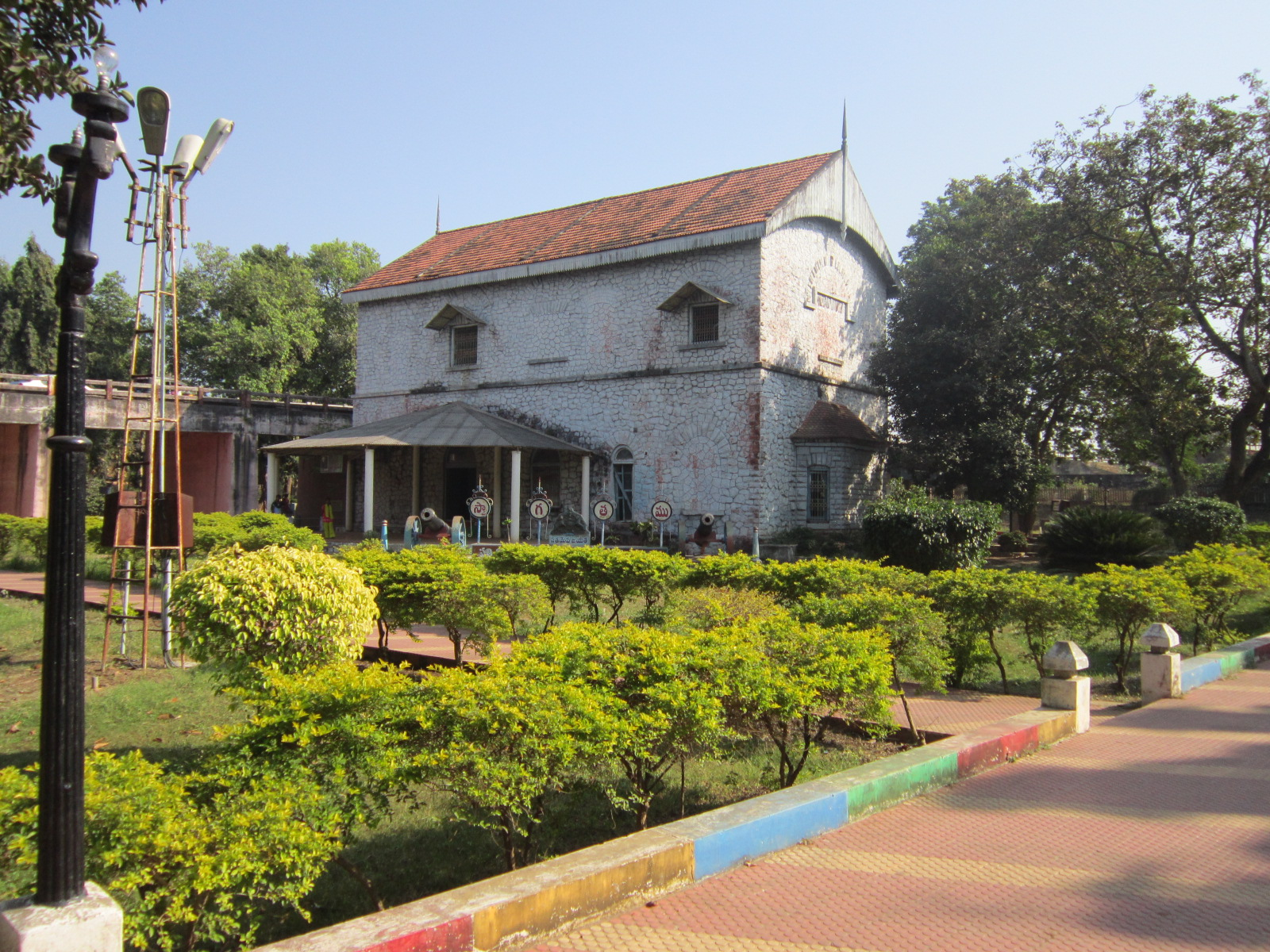 Sir arthur cotton museum in dahalesvaram-Andhrapradesh,India